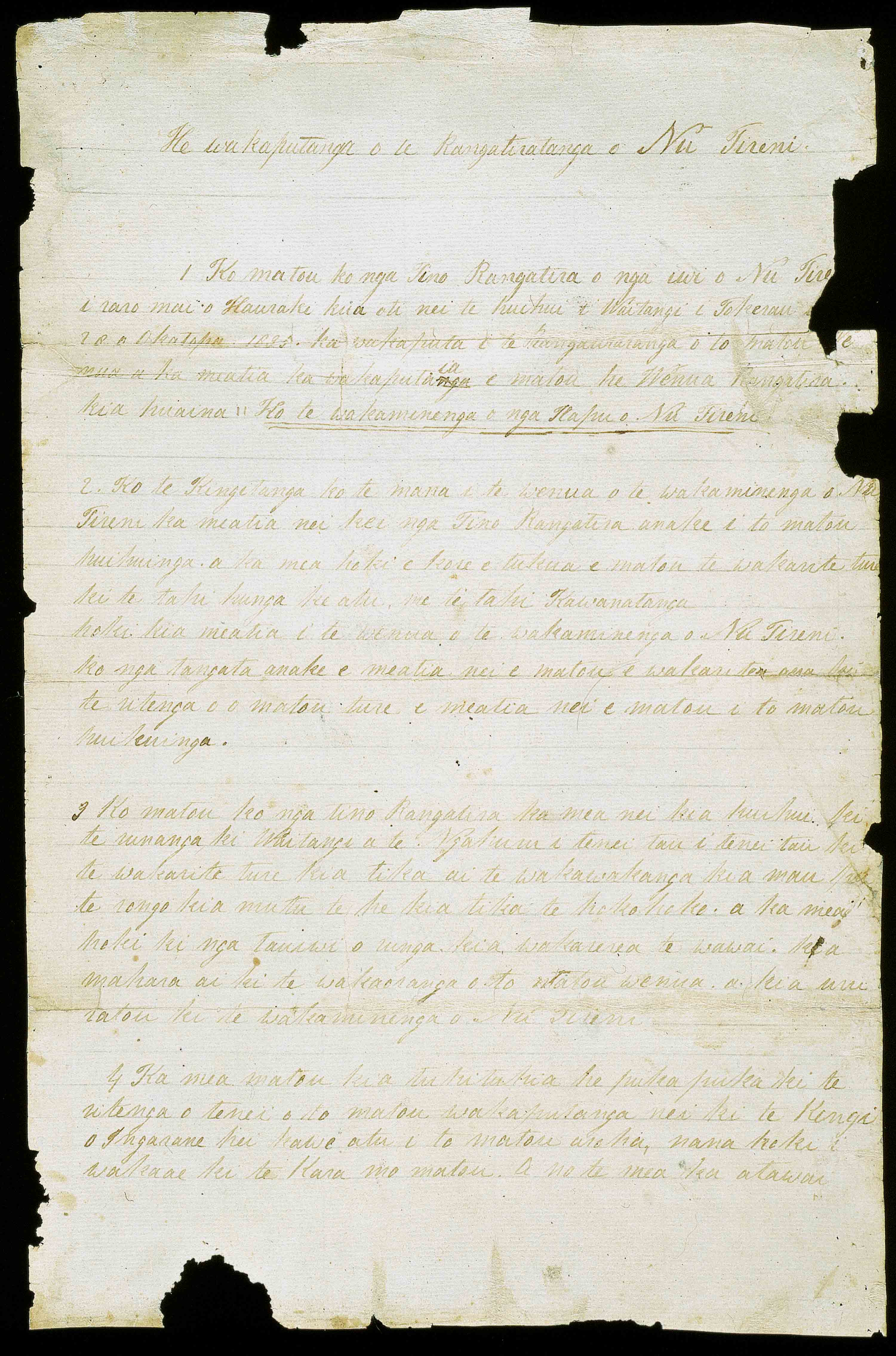 On 28 October 1835, 34 Māori rangatira (chiefs) at Waitangi, Bay of Islands, signed He W[h]akaputanga o te Rangatiratanga o Nu Tireni, also known as the Declaration of Independence of New Zealand (although the Declaration - the English language text - is different and not what the rangatira signed). He Whakaputanga was drawn up by Northern rangatira and the official British Resident James Busby, as part of an ongoing conversation forged by Māori with the Crown. By 1839 a total of 52 rangatira had signed the Māori text document, including rangatira outside of Ngāpuhi. Its four sections declared Aotearoa a sovereign state, and that full sovereign power and authority resided in Te Whakaminenga o Ngā Hapū o Nu Tireni, often translated as the General Assembly of Hapū or Confederation of United Tribes. He Whakaputanga (and in turn the sovereignty of the rangatira) was recognised by British authorities in 1836; hence the need to negotiate further relationships with te Tiriti o Waitangi. Whether He Whakaputanga has any standing today is the subject of ongoing constitutional debate. These range from the view that the Treaty of Waitangi extinguished any sovereignty of the chiefs recognised in the Declaration, and is therefore nothing more than an interesting historical document; to the view that Māori never gave up sovereignty by signing te Tiriti o Waitangi (the Māori documents signed by the majority of rangatira), and that the sovereignty acknowledged in He Whakaputanga is reaffirmed in its family document, te Tiriti. More information can be found in the Waitangi Tribunal Report on He Whakaputanga: He Whakaputanga is currently on display at Archives New Zealand's Wellington office. Archives Reference: IA1 9/1/1a (page 1 of 3) For updates on our On This Day series and news from Archives New Zealand, follow us on Twitter Material supplied by Archives New Zealand